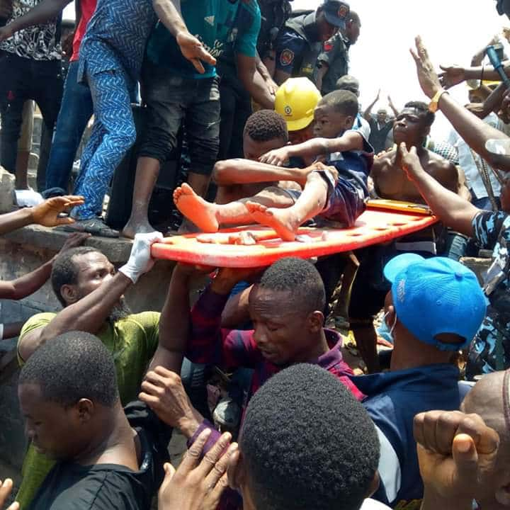 A rescuing team help a school boy This is an image with the theme "Play" from: Nigeria